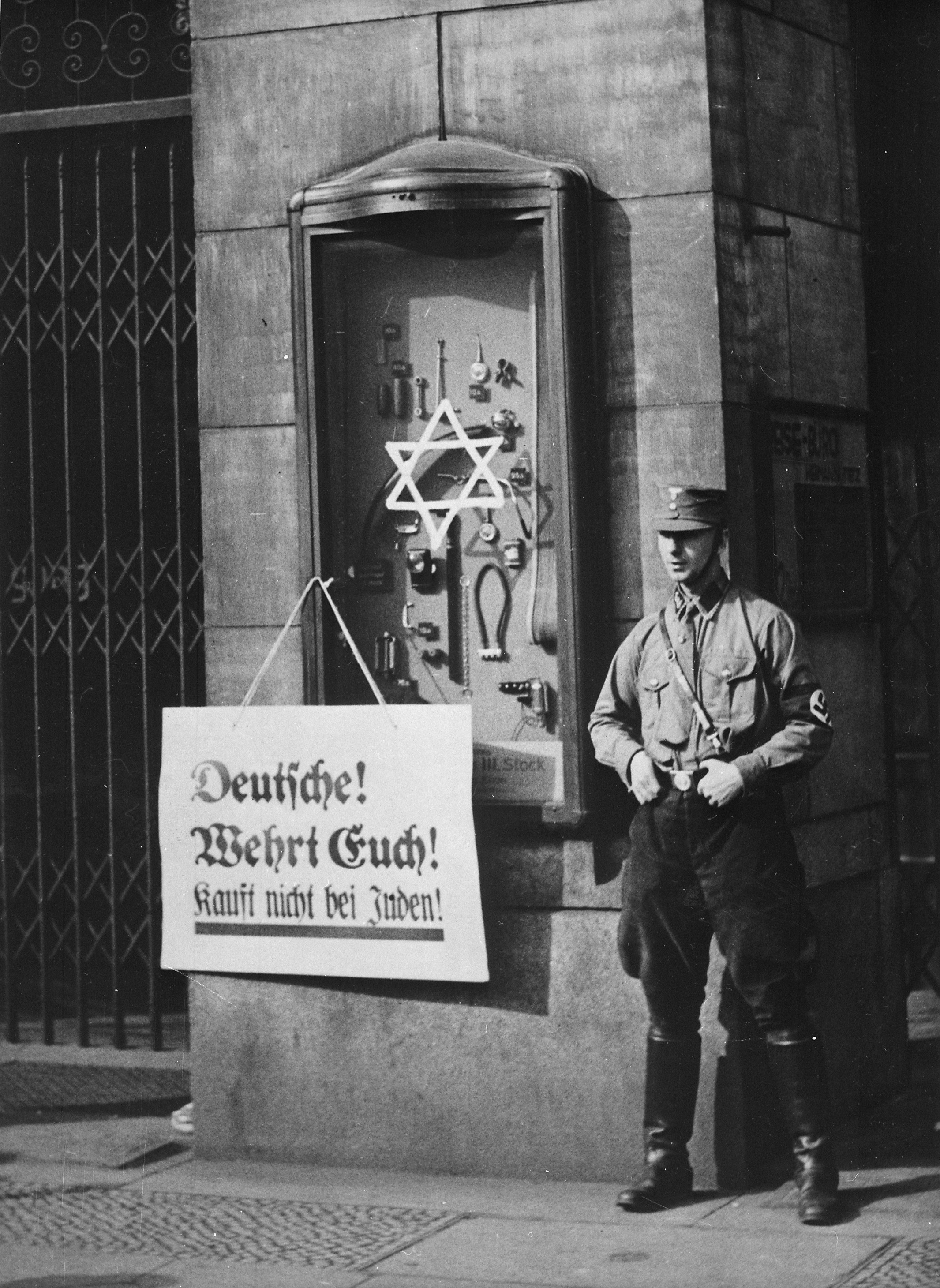 On April 1, 1933, the boycott which was announced by the Nationalsocialistic party began. Placard reads, "Germans, defend yourselves, do not buy from Jews", at the Jewish Tietz store.